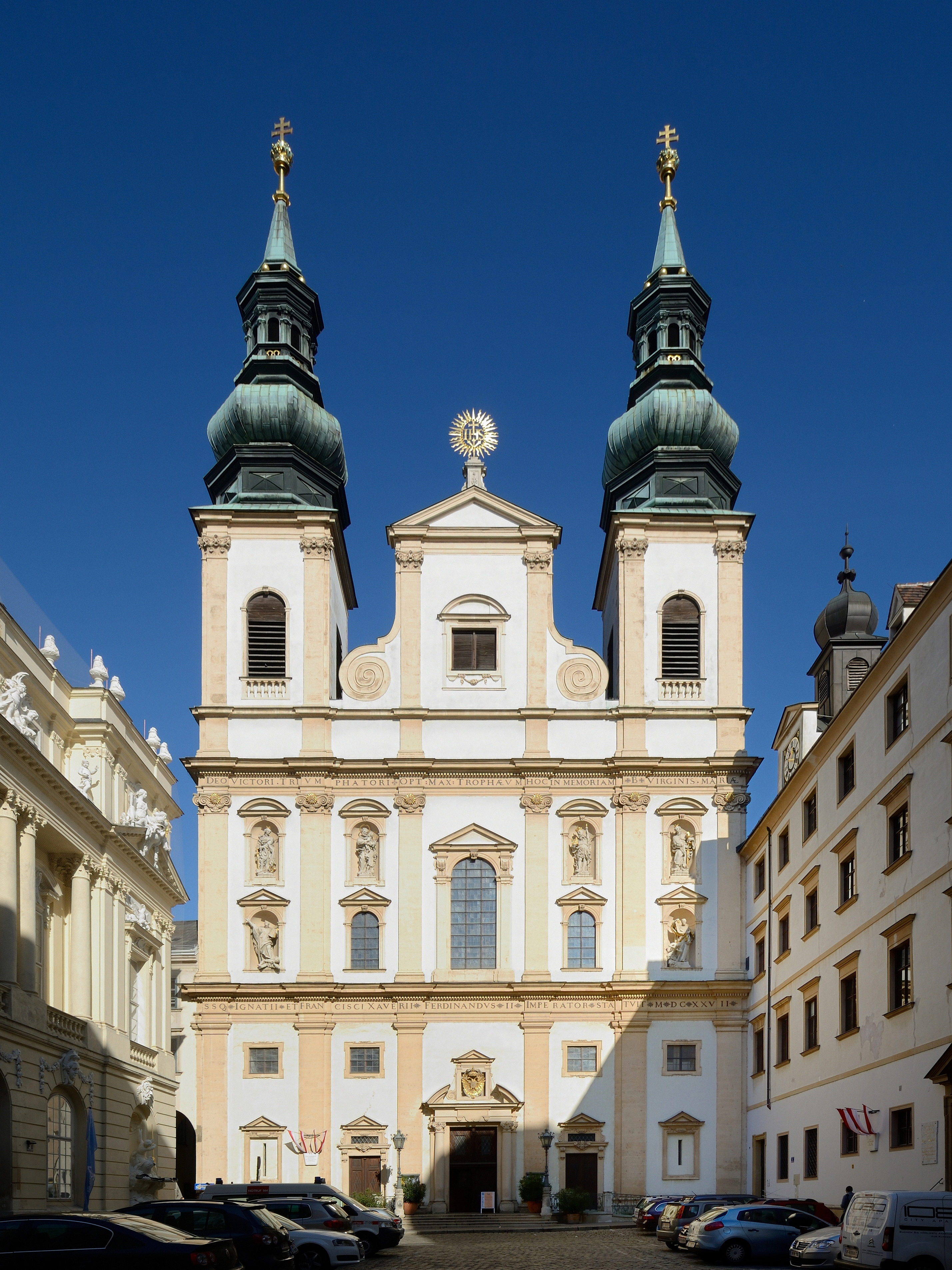 Jesuit Church, Dr.-Ignaz-Seipel-Platz, Vienna